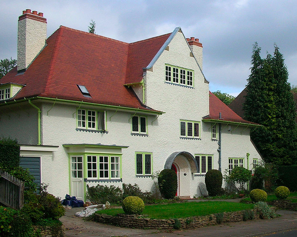 21 Yateley Road, Edgbaston, Birmingham - a Grade I listed Arts and Crafts house designed by architect Herbert Tudor Buckland for himself